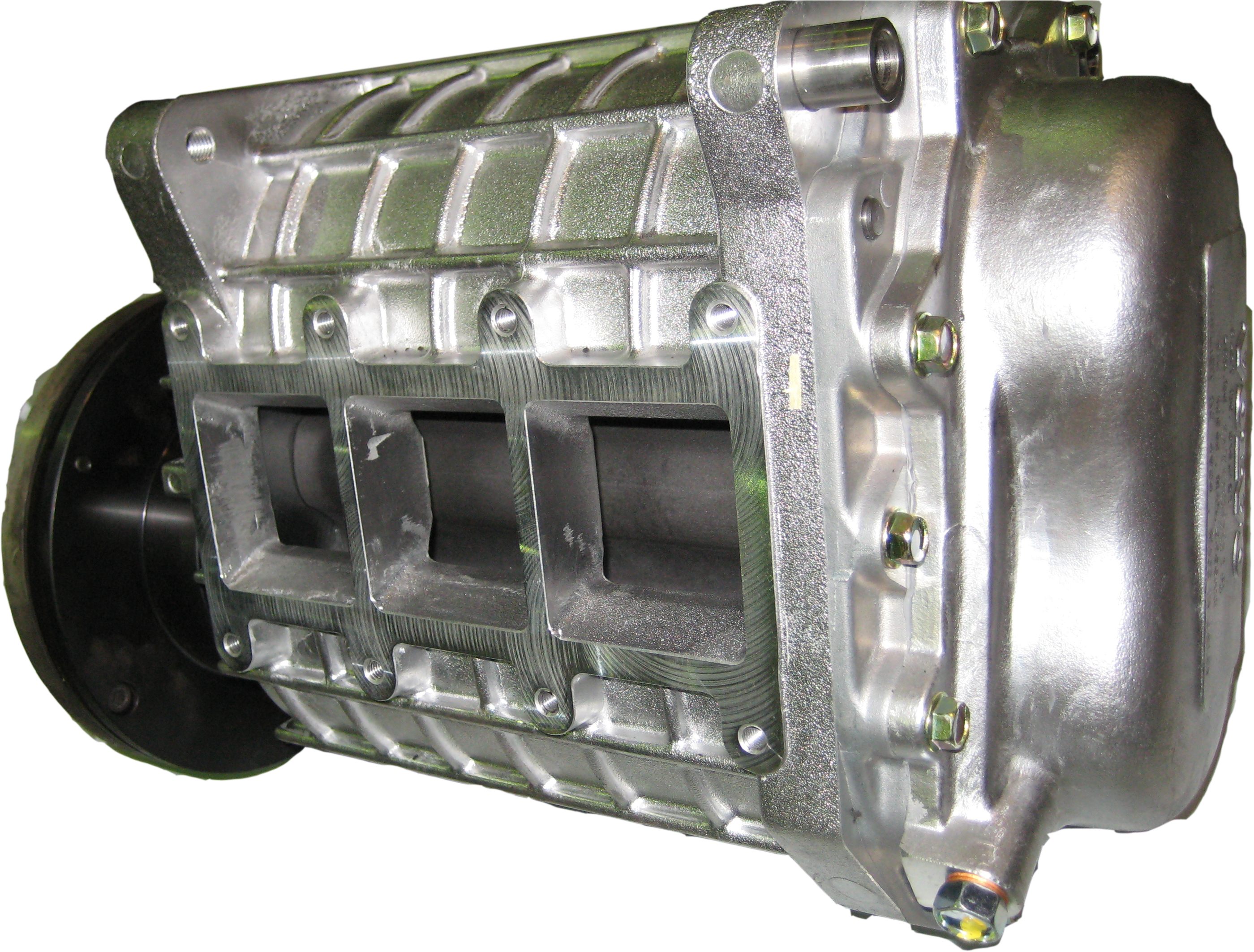 Close up of a supercharger for Volvo FL6